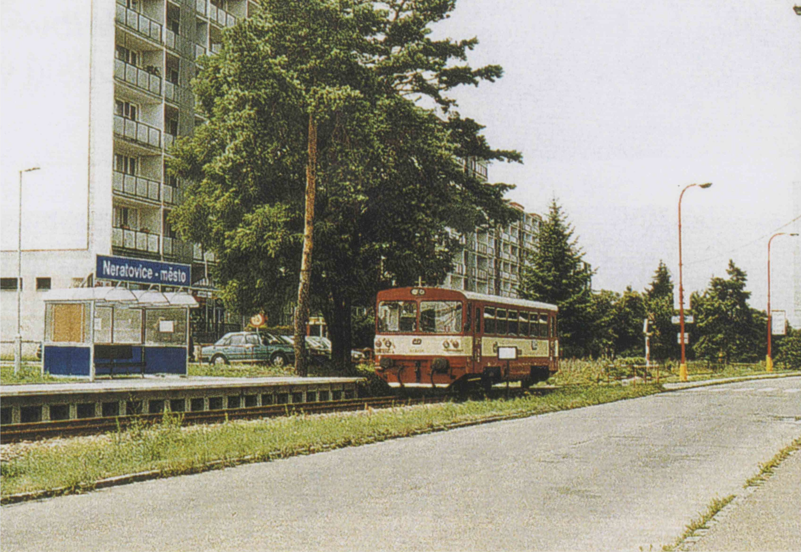 station Neratovice město